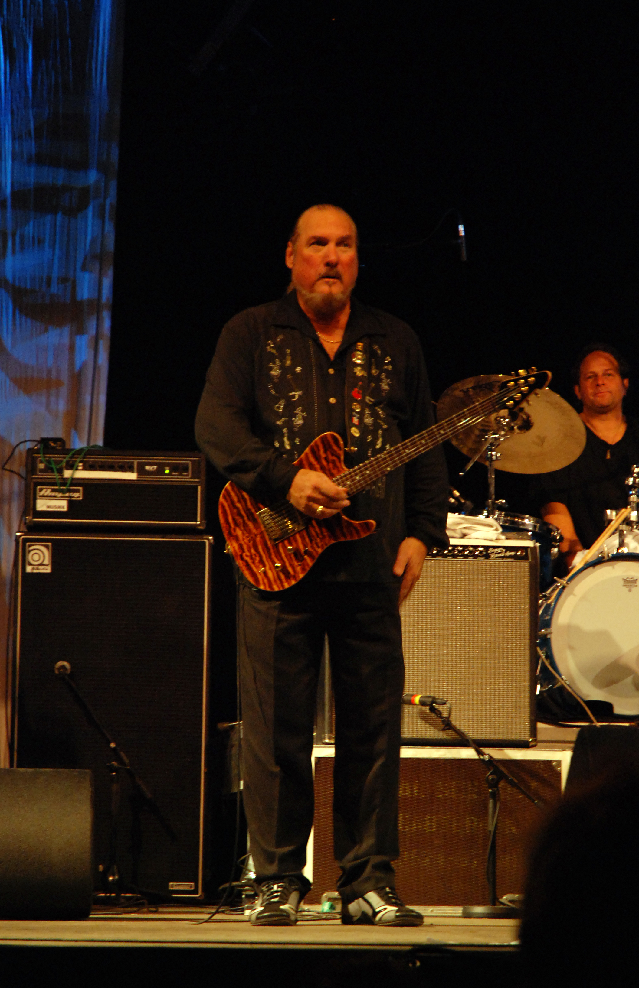 Steve Cropper of The Blues Brothers band at Hamar Music Festival 2007, in Hamar, Hedmark, Norway.